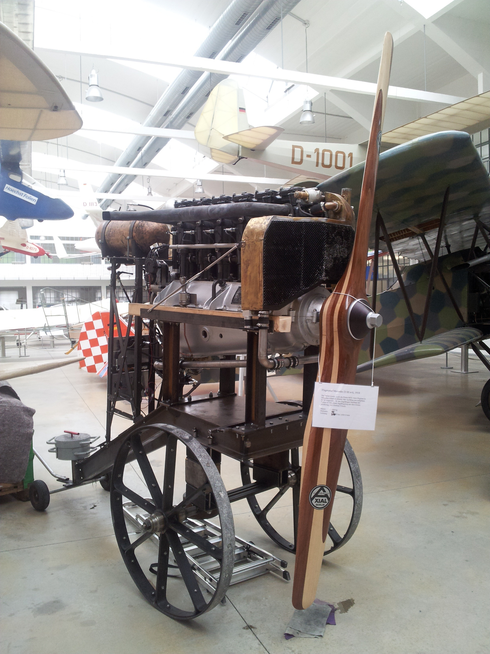 Aircraft engine Mercedes D III avü, 1918 Flugwerft Schleißheim, by enterprise MTU reconditioned